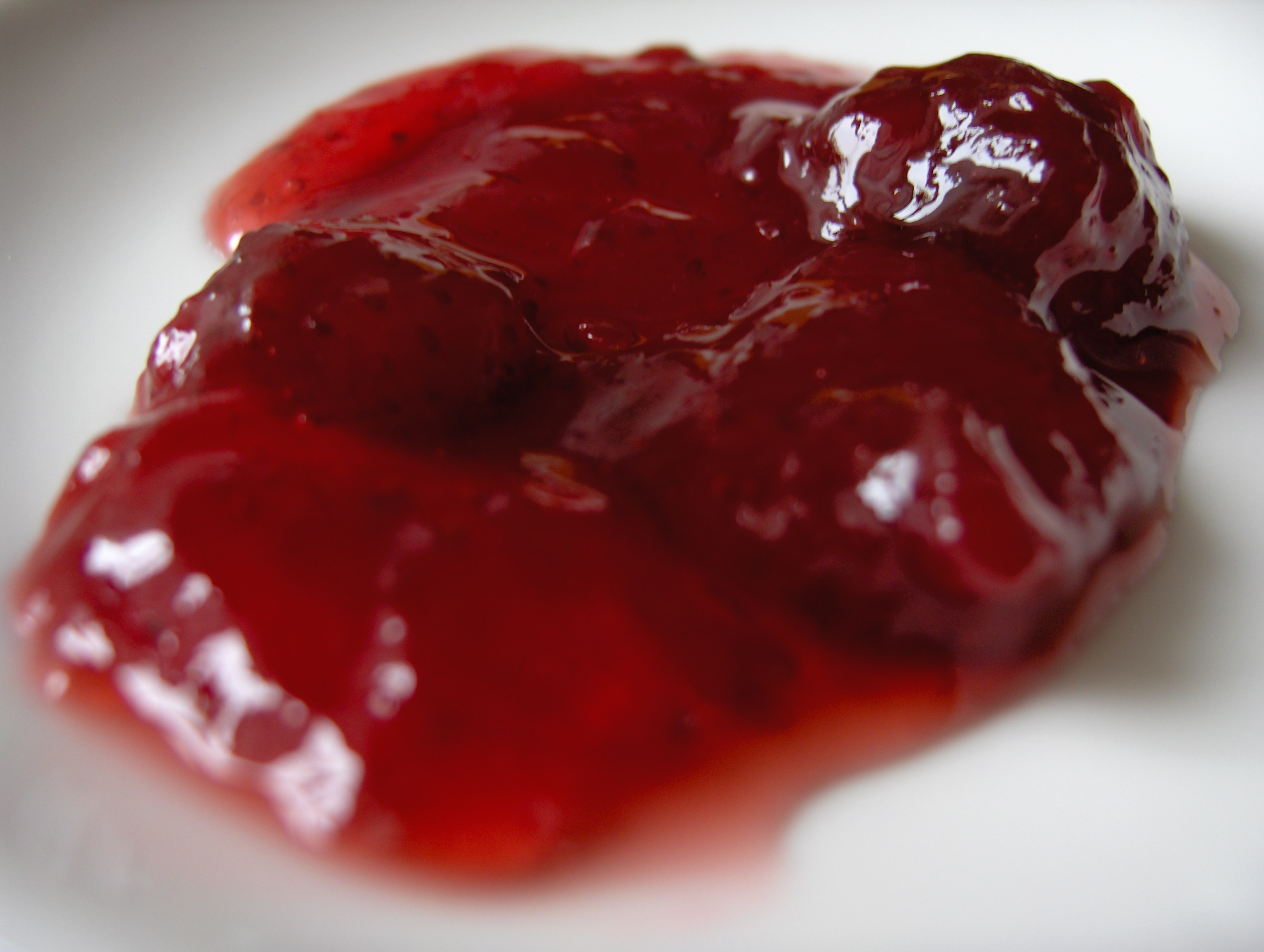 Strawberry jam on a plate.